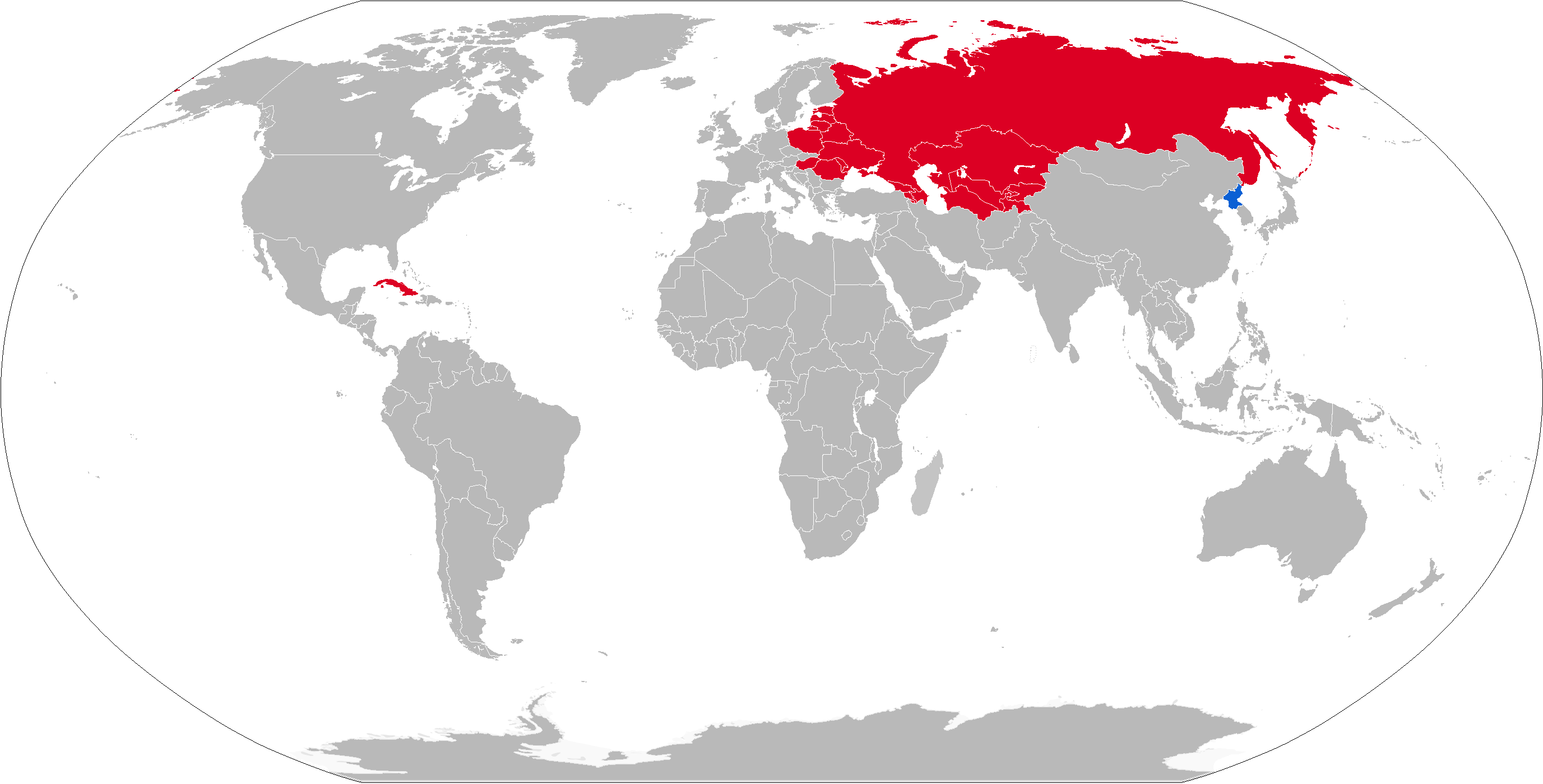 Map with 2K6 operators in blue and former operators in red